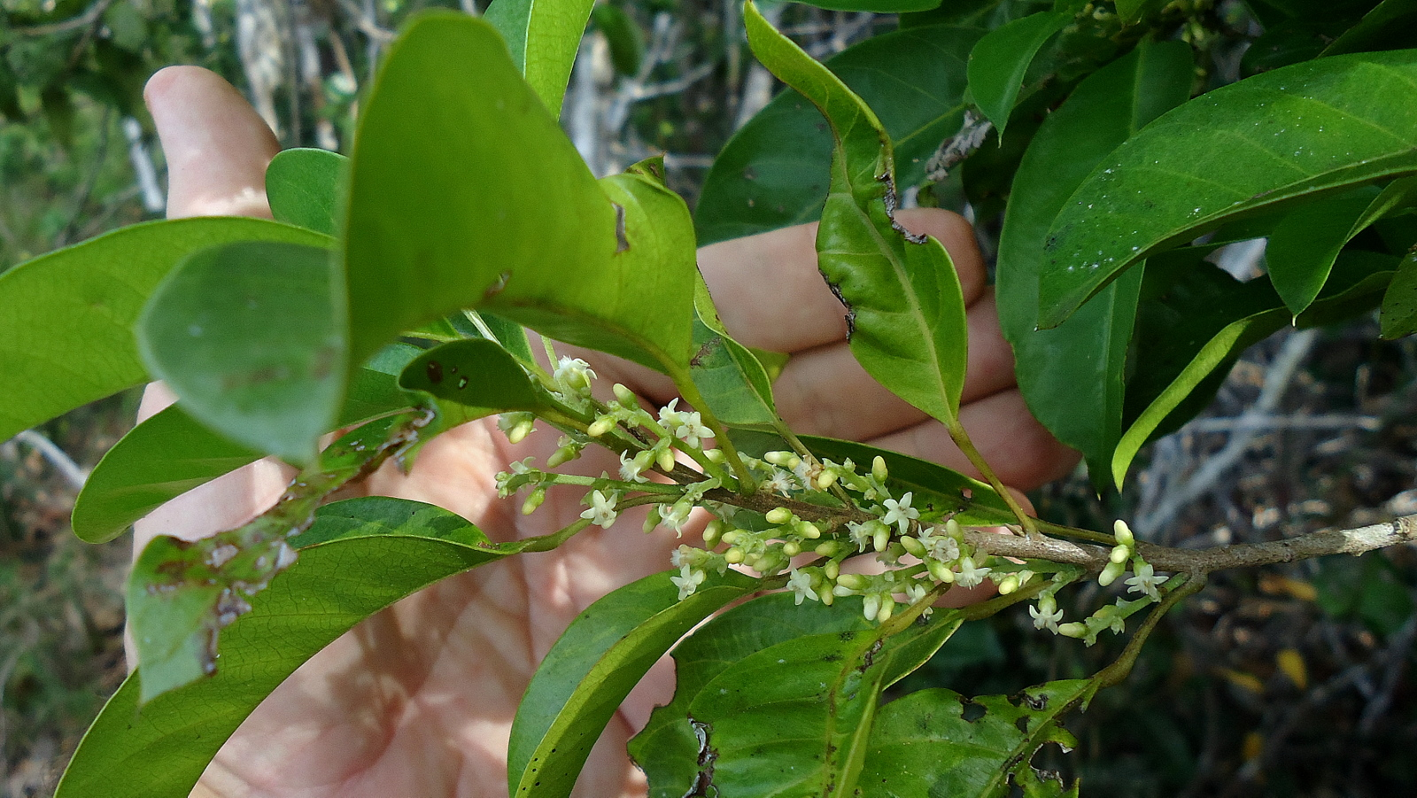 Staminate flowers.